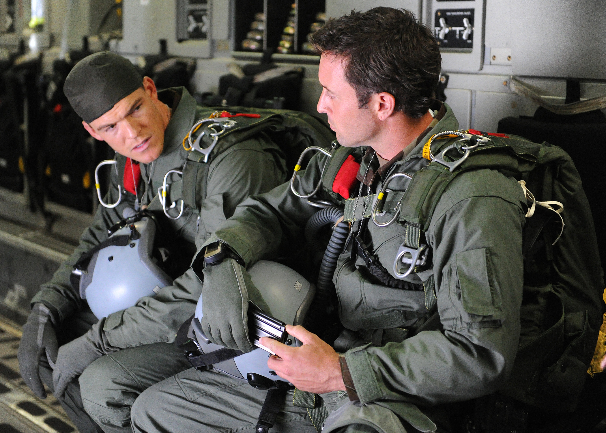 “Hawaii Five-0” actors Alan Ritchson and Alex O’Loughlin (right) go over their lines during a filming scene aboard a C-17 Globemaster at Joint Base Pearl Harbor-Hickam, Feb. 21, 2013. The crew and cast were on scene to shoot a portion of an upcoming episode.